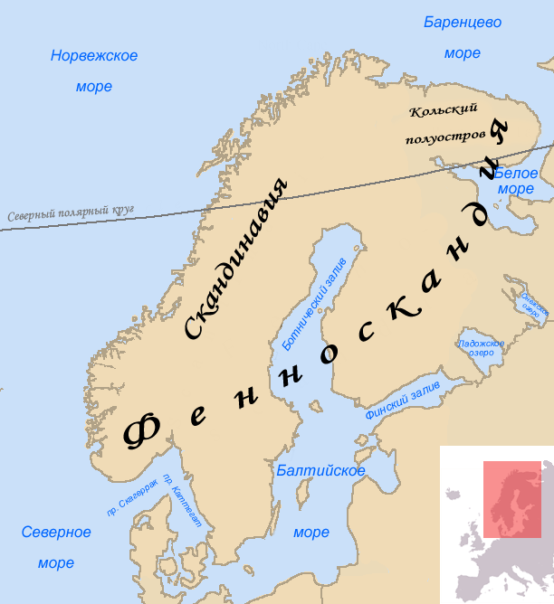 Map of geographic features in northern Europe.